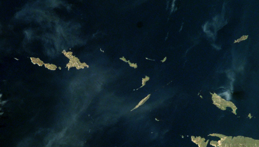 NASA astronaut image of the Jason Islands, Falkland Islands